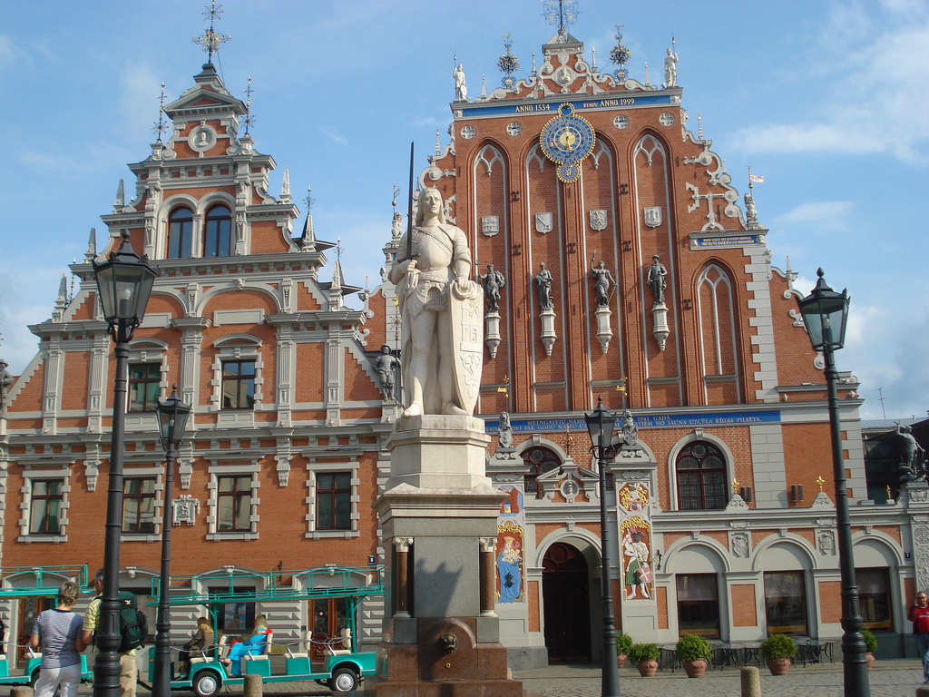 House of the Blackheads, Riga, Latvia.